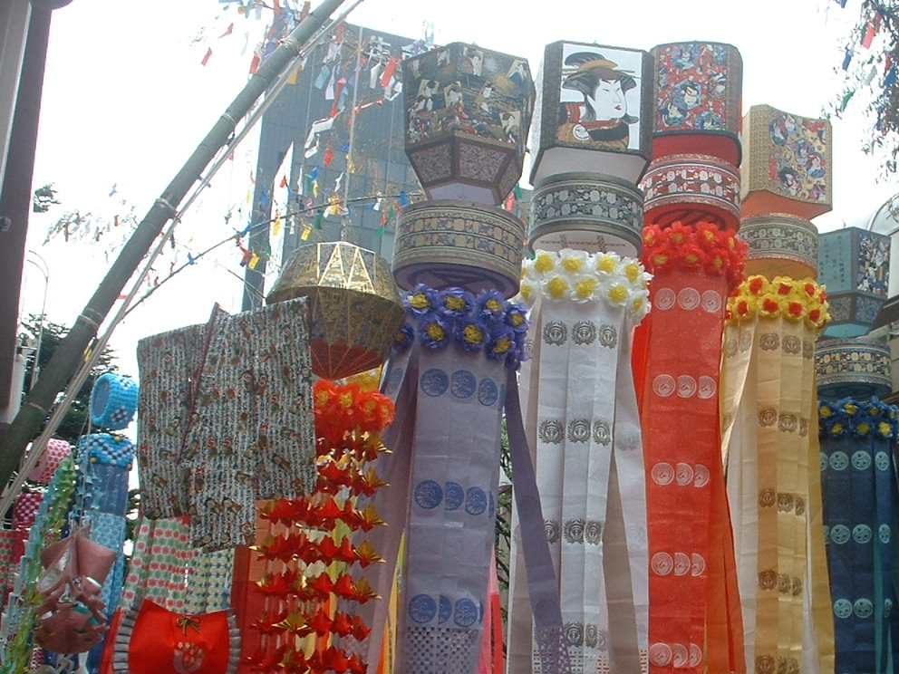 Image of Tanabata decorations, photographed during the Sendai Tanabata Festival, held at Sendai, Miyagi Prefecture, Japan. I took this photograph on August 7, 2005. This image is multi licensed under the GNU Free Documentation License and the Creative Commons Attribution-ShareAlike 2.0 license.